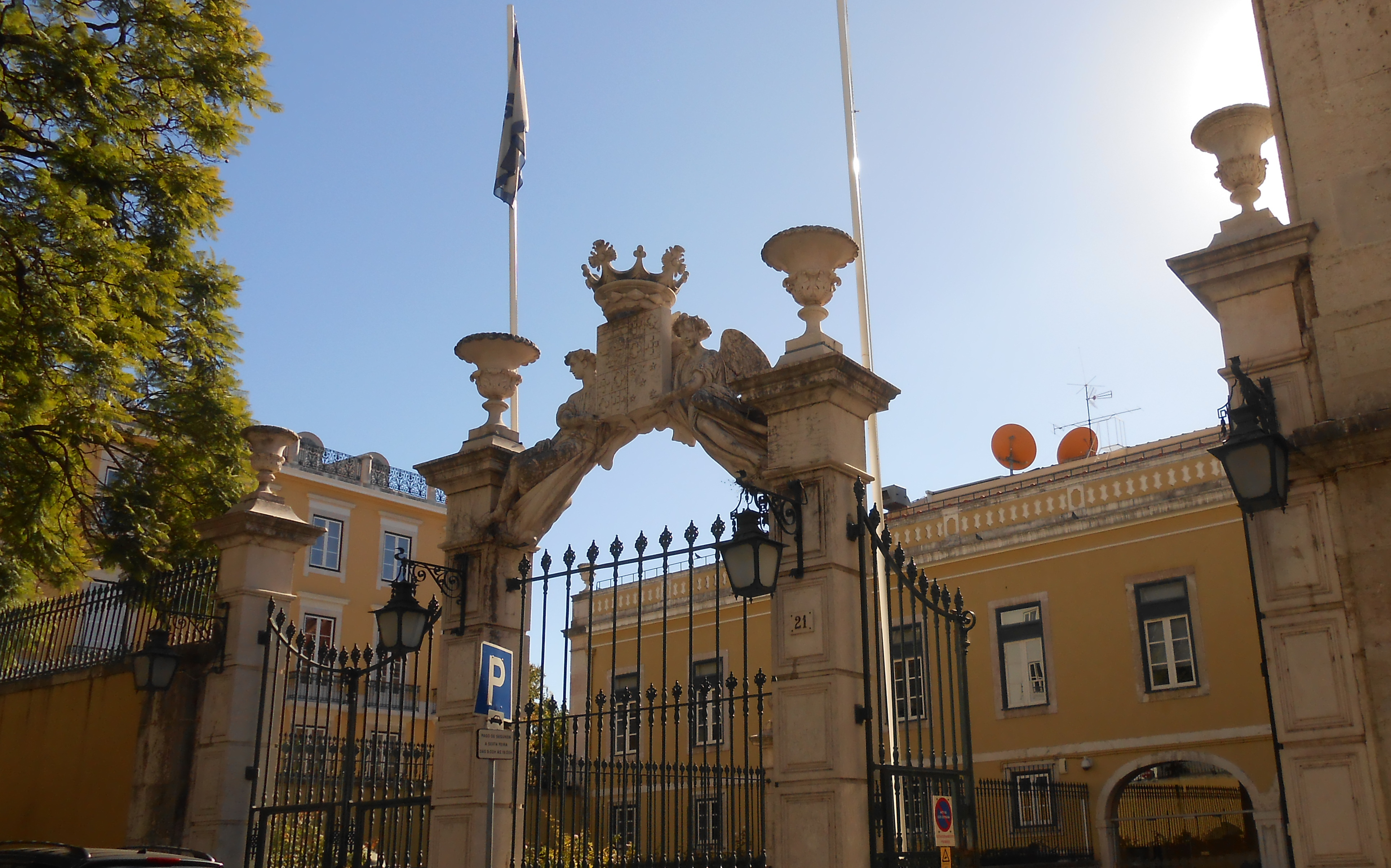 The Palácio Conde Penafiel in Lisbon, built in the early 17th century, became the headquarter of the Community of Portuguese Language Countries (Comunidade dos Países de Língua Portuguesa, CPLP) in 2011.